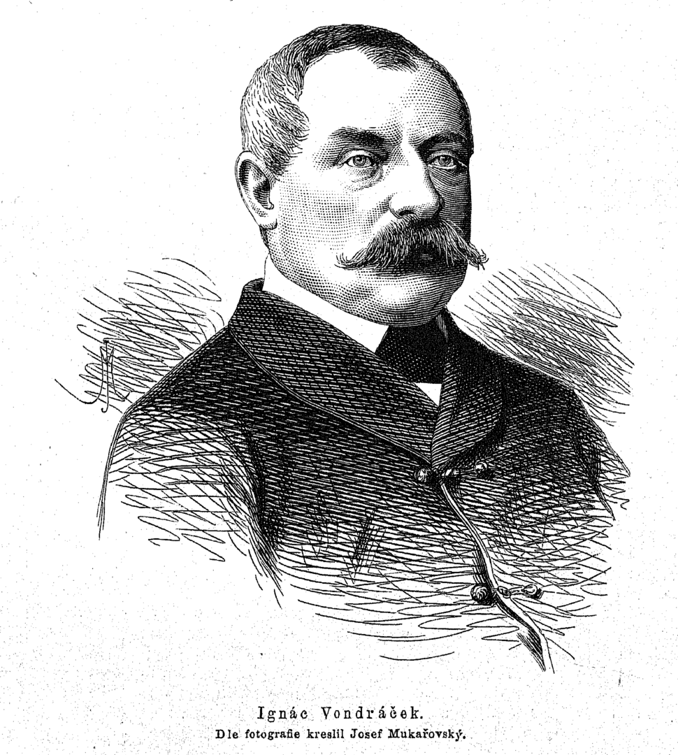 Portrait of Ignác Vondráček, coal mining entrepreneur in Ostrava, Moravia (present-day Czech Republic)